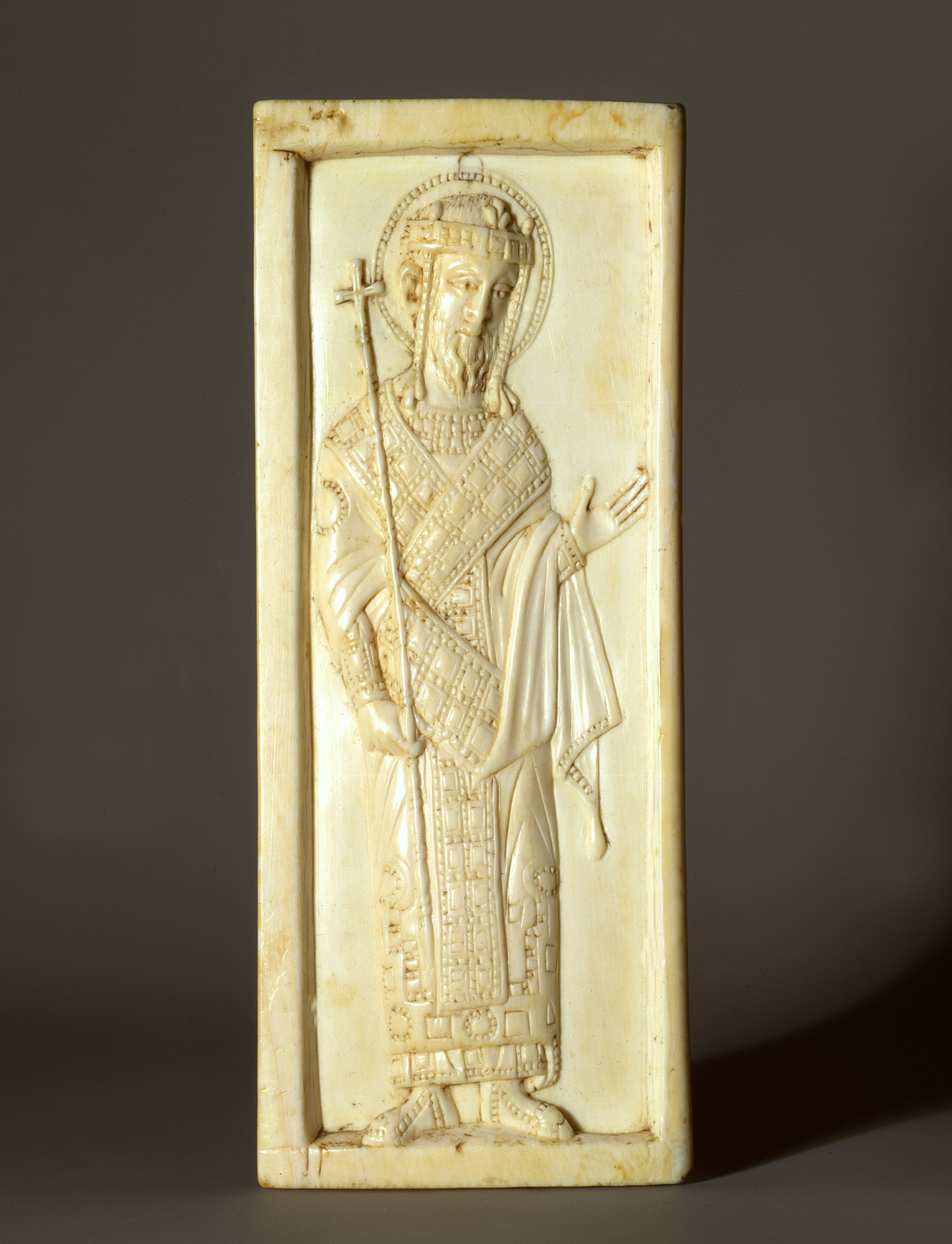 Byzantine ivory leaf from a triptych. It depicts an unknown Byzantine emperor, possibly Constantine the Great, dressed in the 10th-century Byzantine imperial dress. Made in Constantinople, 10th century. Dumbarton Oaks, Washington, D.C.